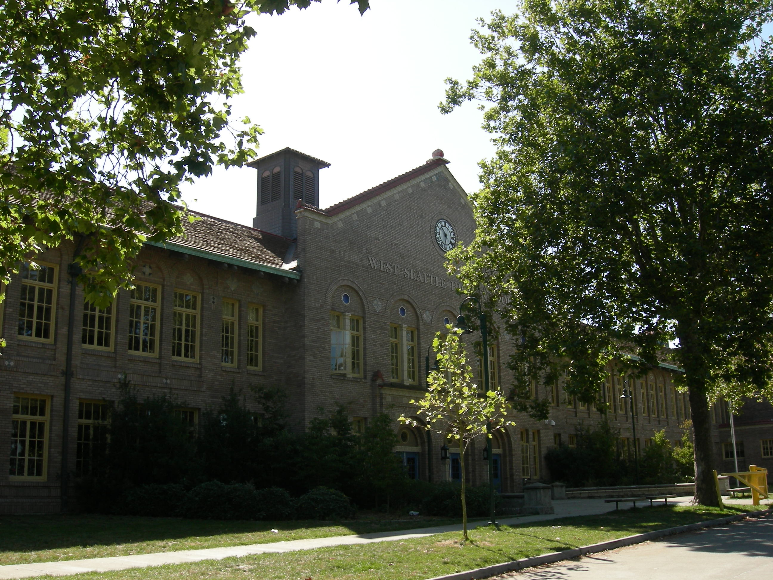 West Seattle High School, Seattle, Washington.